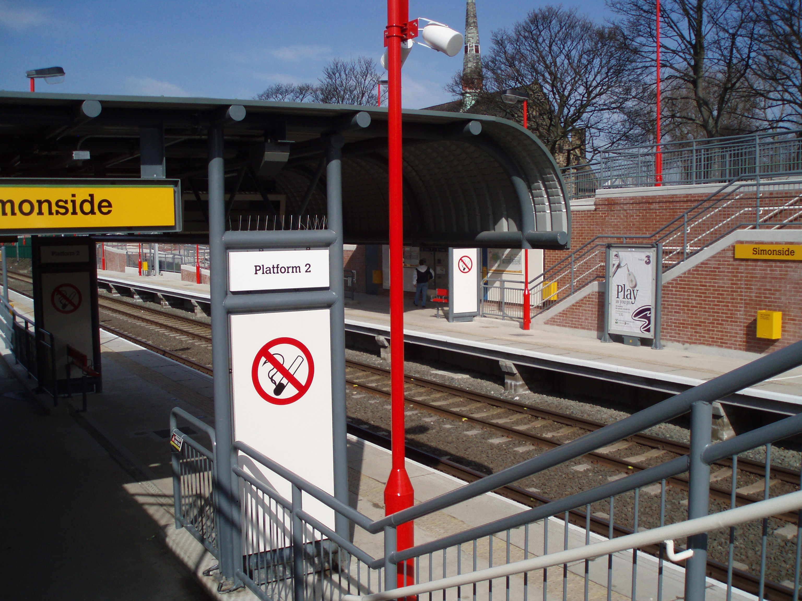 This the is Simonside Tyne and Wear Metro station. Platform 2 is in the foreground. South Shields, Tyne and Wear, England.